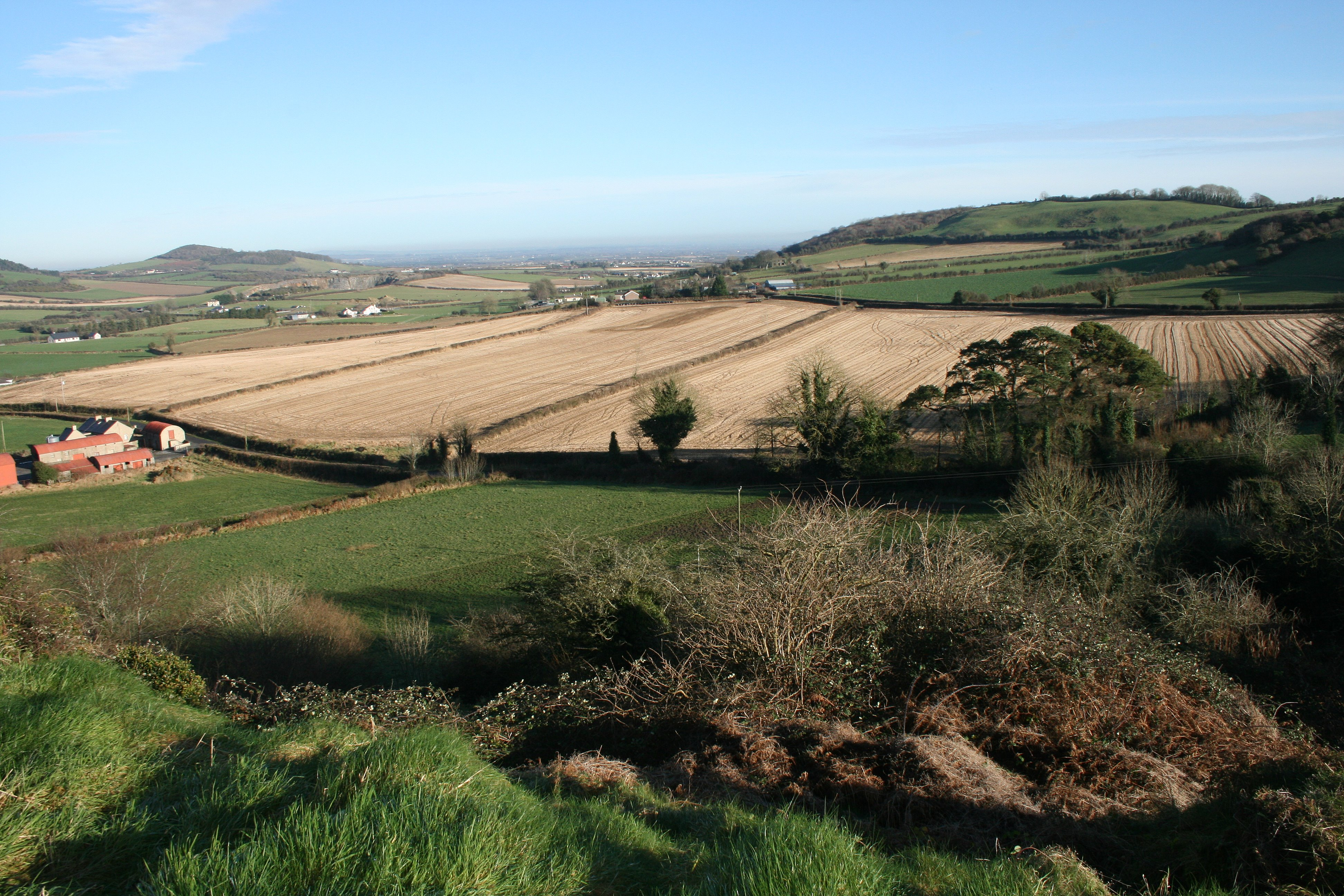 Looking south from the Rock of Dunmase, County Laois, Ireland.